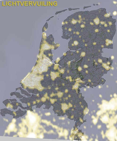 Mapping of Light pollution in Nederland (Map :NASA/NOAA Credit ; Data courtesy Marc Imhoff of NASA GSFC and Christopher Elvidge of NOAA NGDC. Image by Craig Mayhew and Robert Simmon, NASA GSFC.